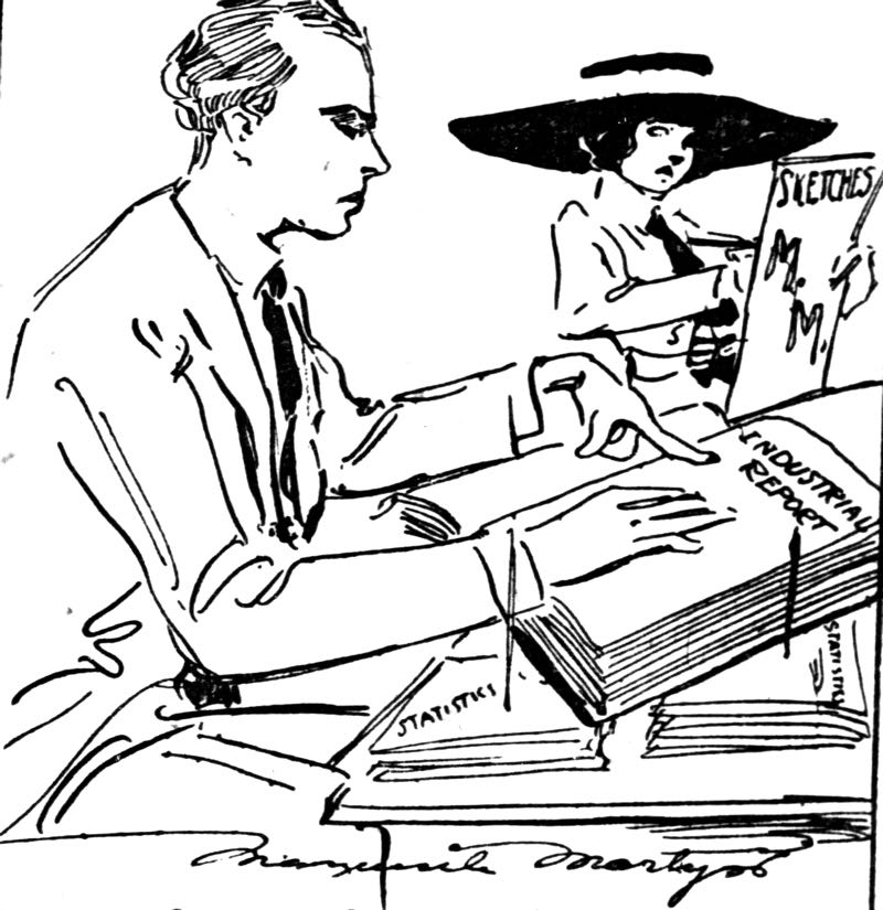 Marguerite Martyn draws herself interviewing City Commissioner Guilford Glynn of Iola, Kansas, in 1911